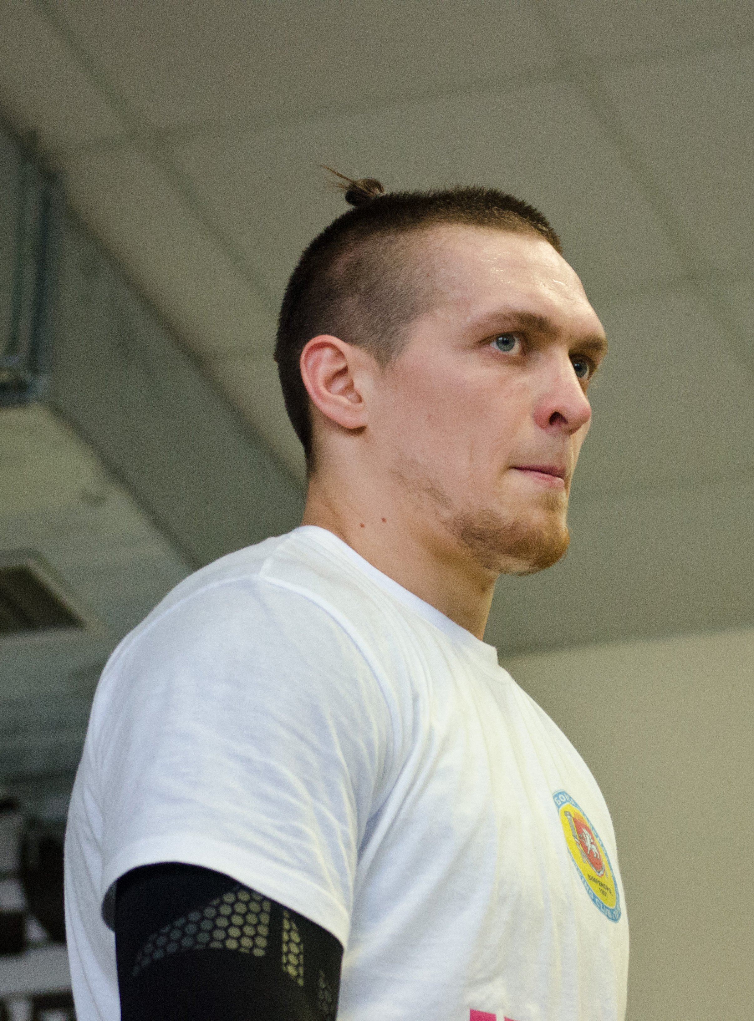 Oleksandr Usyk's open training primary to his fight with Andrey Knyazev.